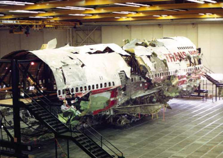 This photograph is part of the National Transportation Safety Board accident report for TWA Flight 800. The date on the photograph shows as May 20, 1997. It is figure 29 of the report, which is described as: A photograph of the large three-dimensional reconstruction, with the support scaffolding visible. Uploaded at full size as pulled from the report. URL of this report